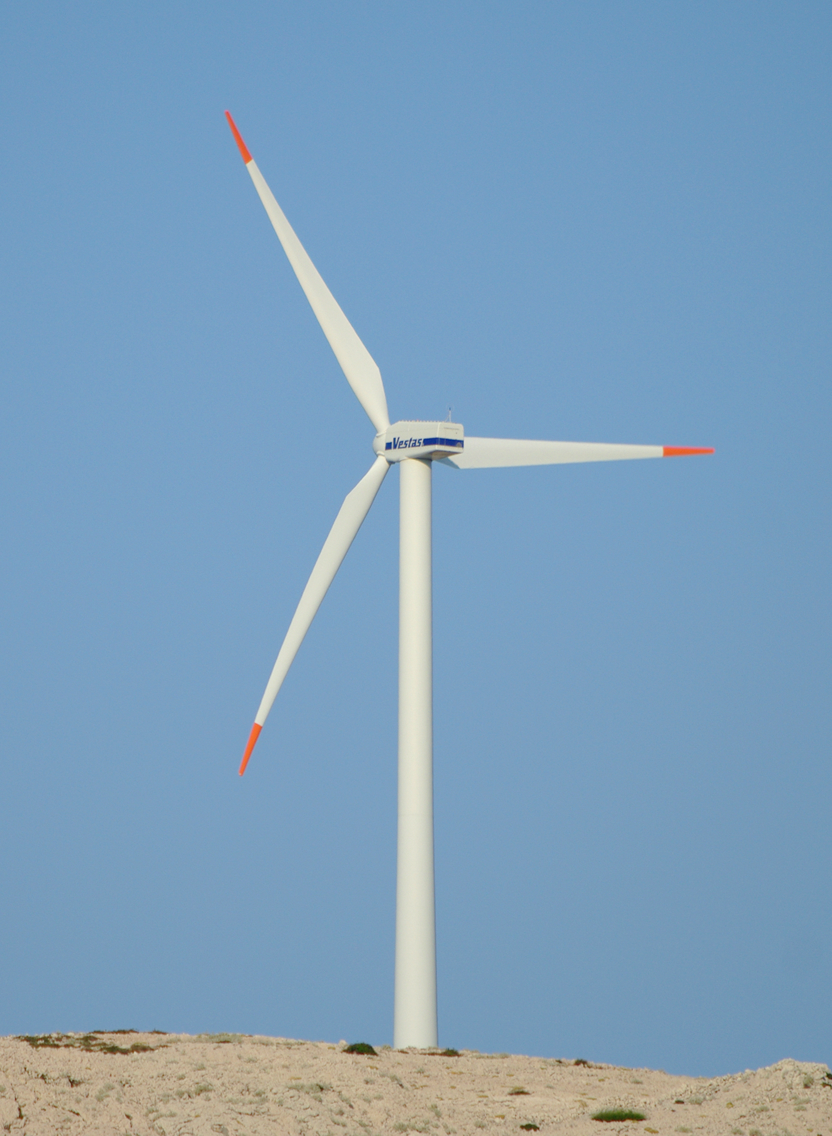 Wind turbine Vestas V52 in Pag, Croatia